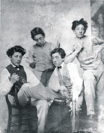 Manuel Críspulo González y Soto (extreme left) in 1860 during his time at St. Edward's College, Liverpool, United Kingdom.